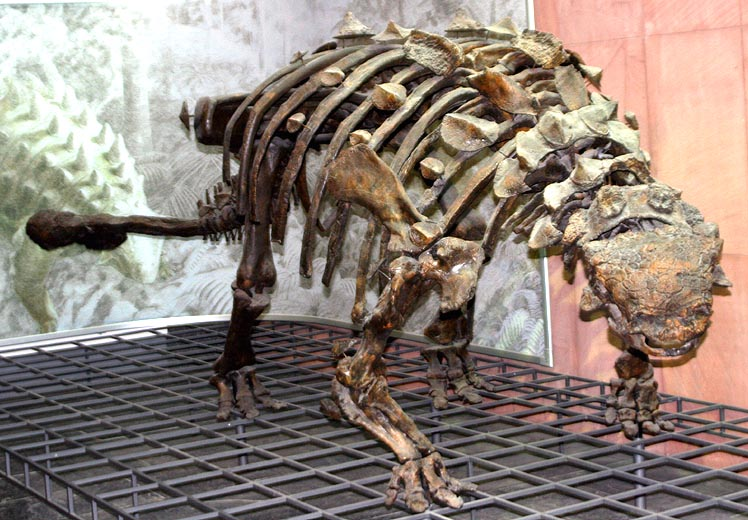 Skeletal mount of Scolosaurus thronus (based on holotype ROM 1930, formerly assigned to Euoplocephalus)